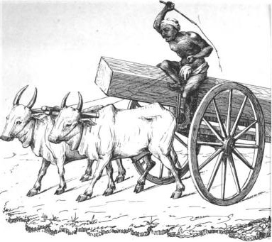 Douglas_Hamilton,_Alan,_Ox Cart